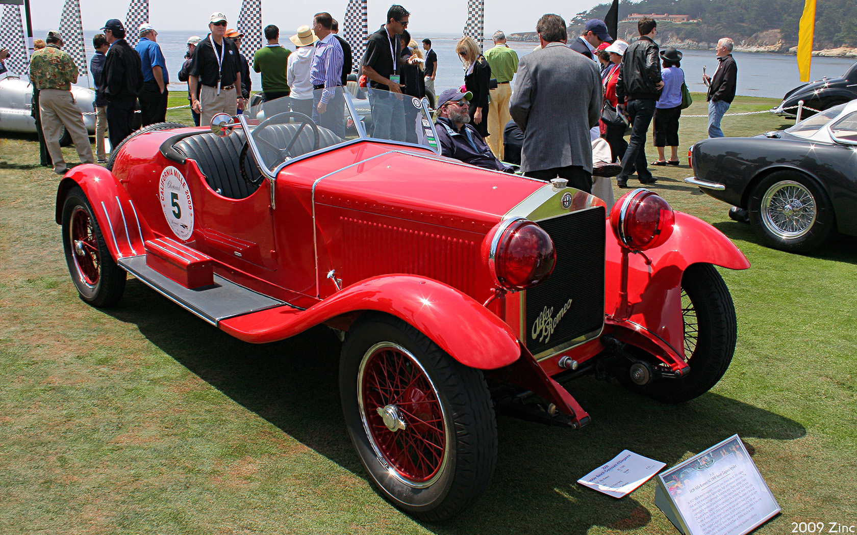 Pebble Beach Concours dElegance, Aug 16, 2009